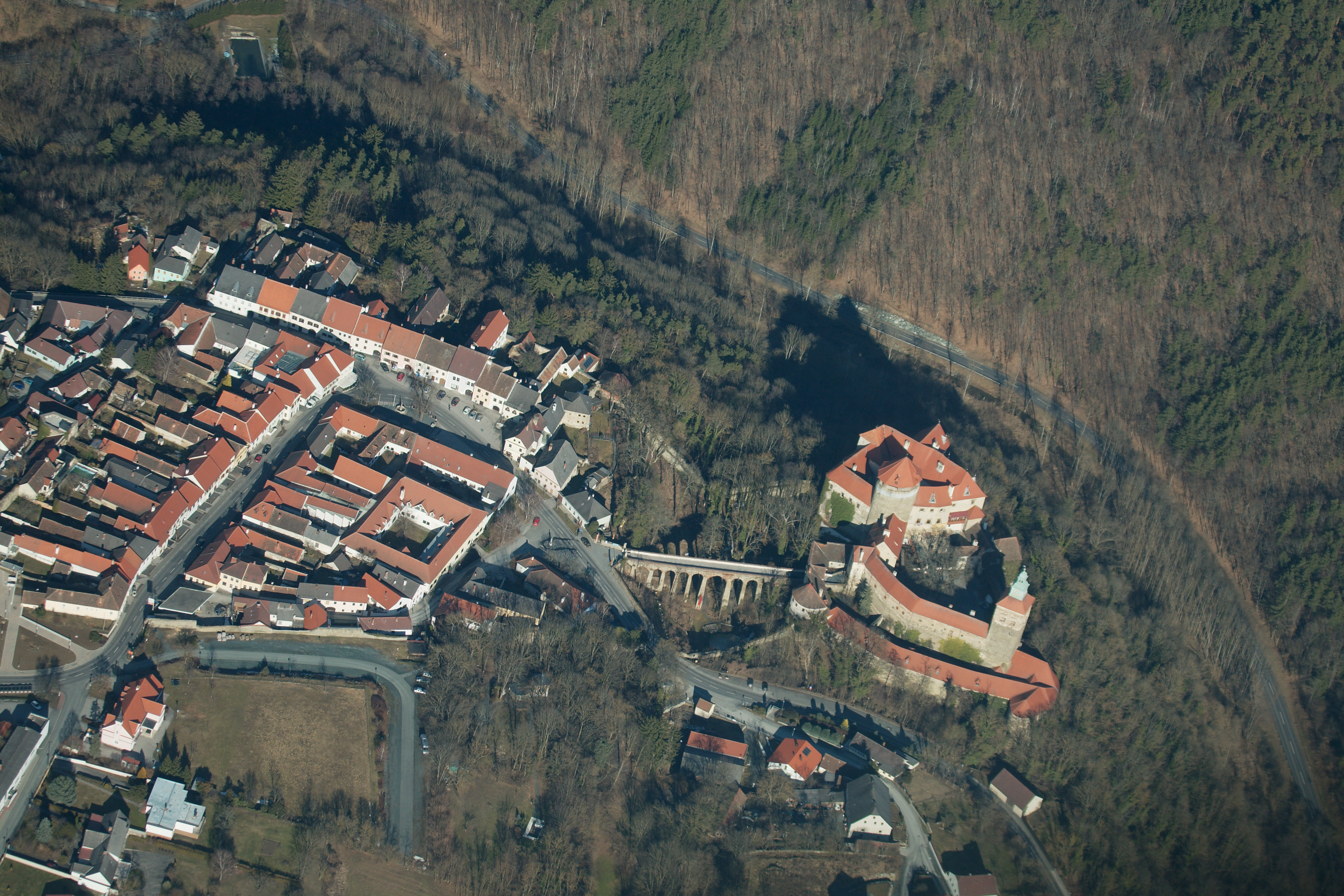 Aerial view of Burg Schlaining